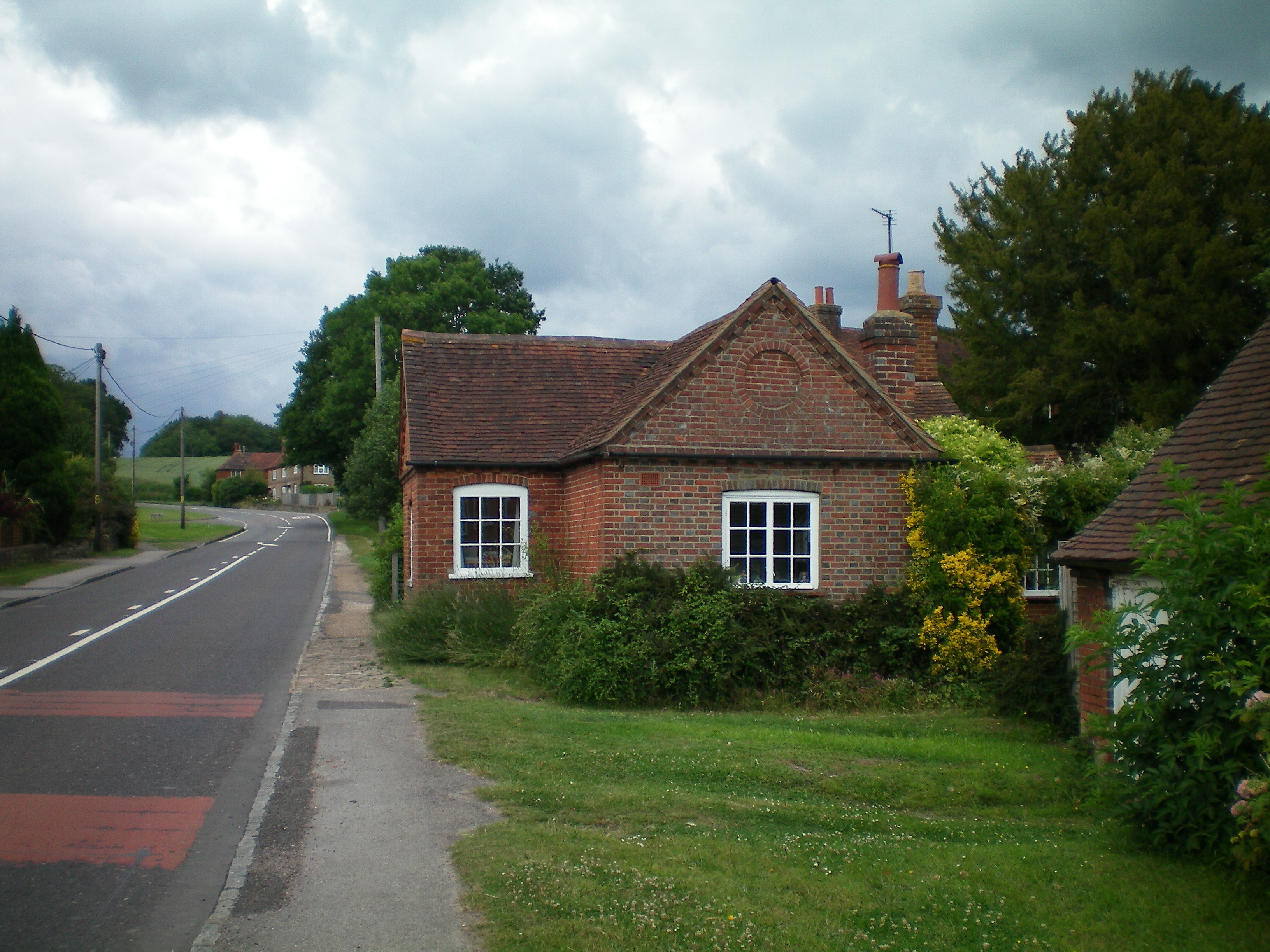 The Old Toll House at Northchapel, West Sussex, England.